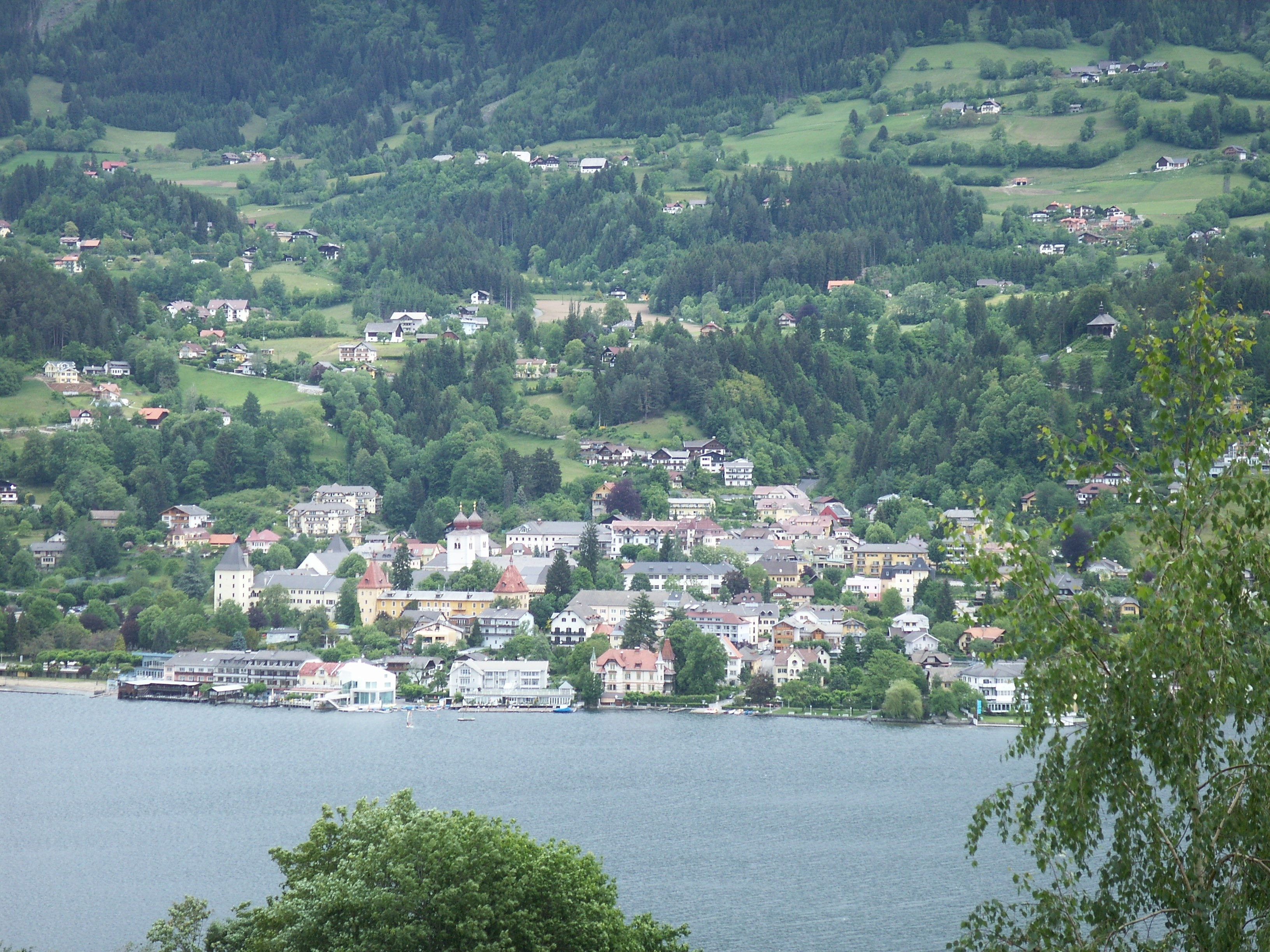 Millstatt / Carinthia / Austria / EU.